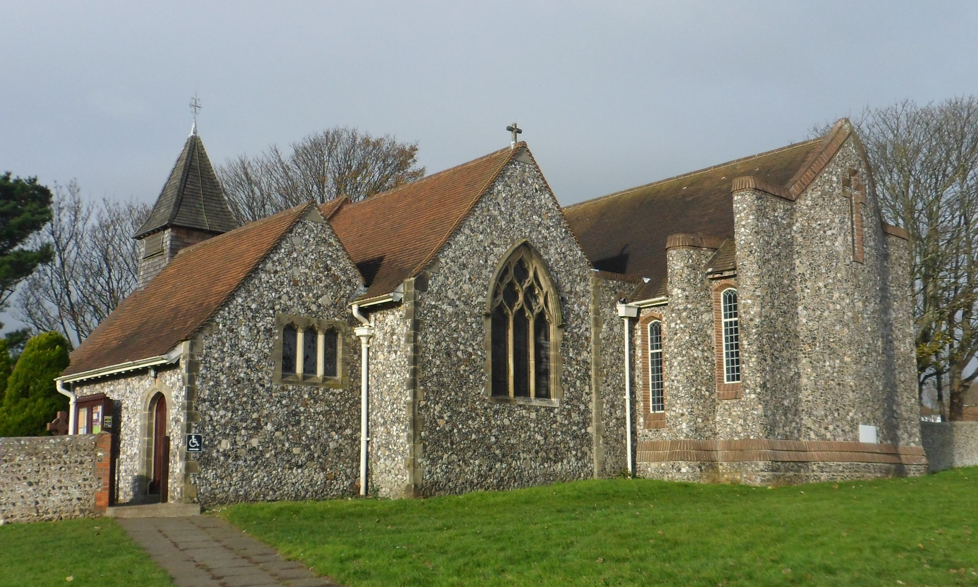 St Peter's Church, Holmes Avenue, West Blatchington, City of Brighton and Hove, England.